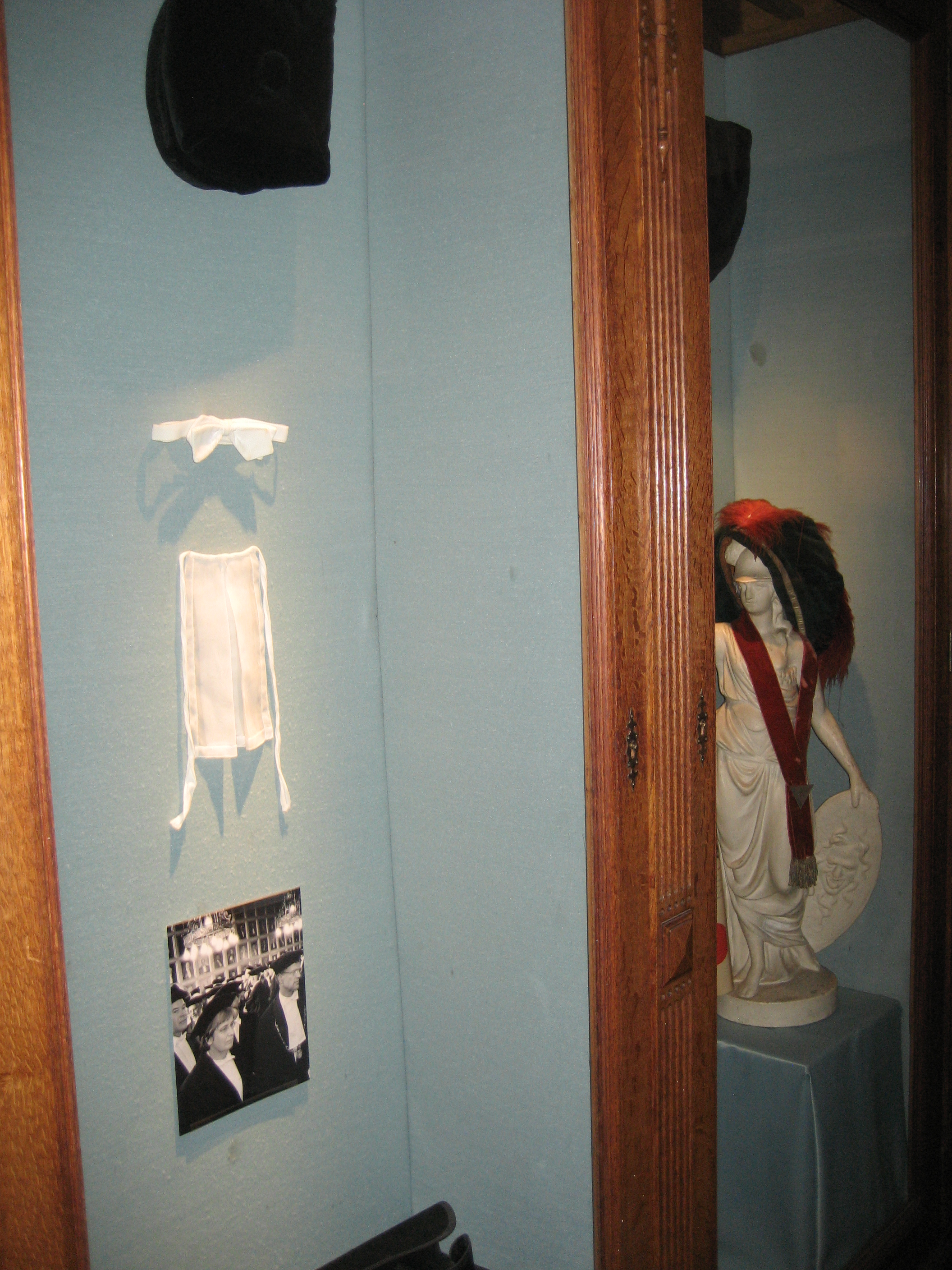 Bow tie and band of Prof Bernard Slicher van Bath (1910-2004). University Museum, University of Groningen